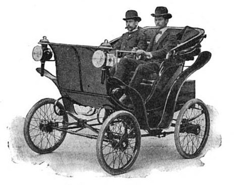 Photo is from page 329 Title Horseless vehicles, automobiles, motor cycles operated by steam, hydro-carbon, electric and pneumatic motors: a practical treatise for ... everyone interested in the development, use and care of the automobile, including a special chapter on how to build an electric cab, with detail drawings Author Gardner Dexter Hiscox Publisher N. W. Henley & co., 1900 Original from the University of Michigan Digitized May 13, 2009 Length 459 pages